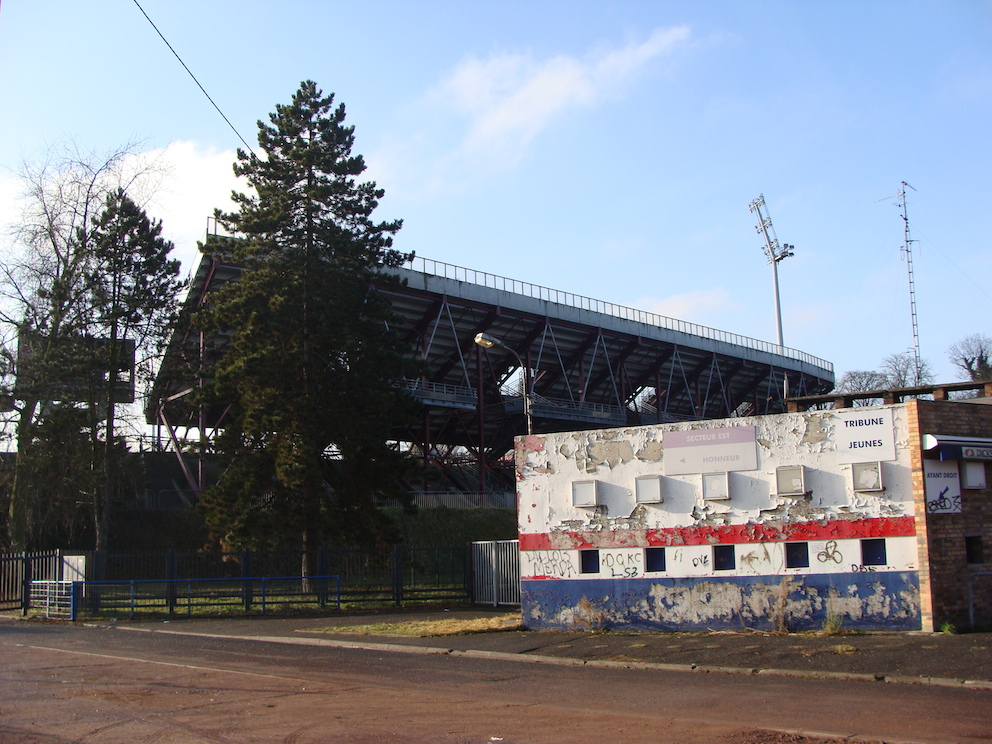 Grimonprez Jooris stadium wicket